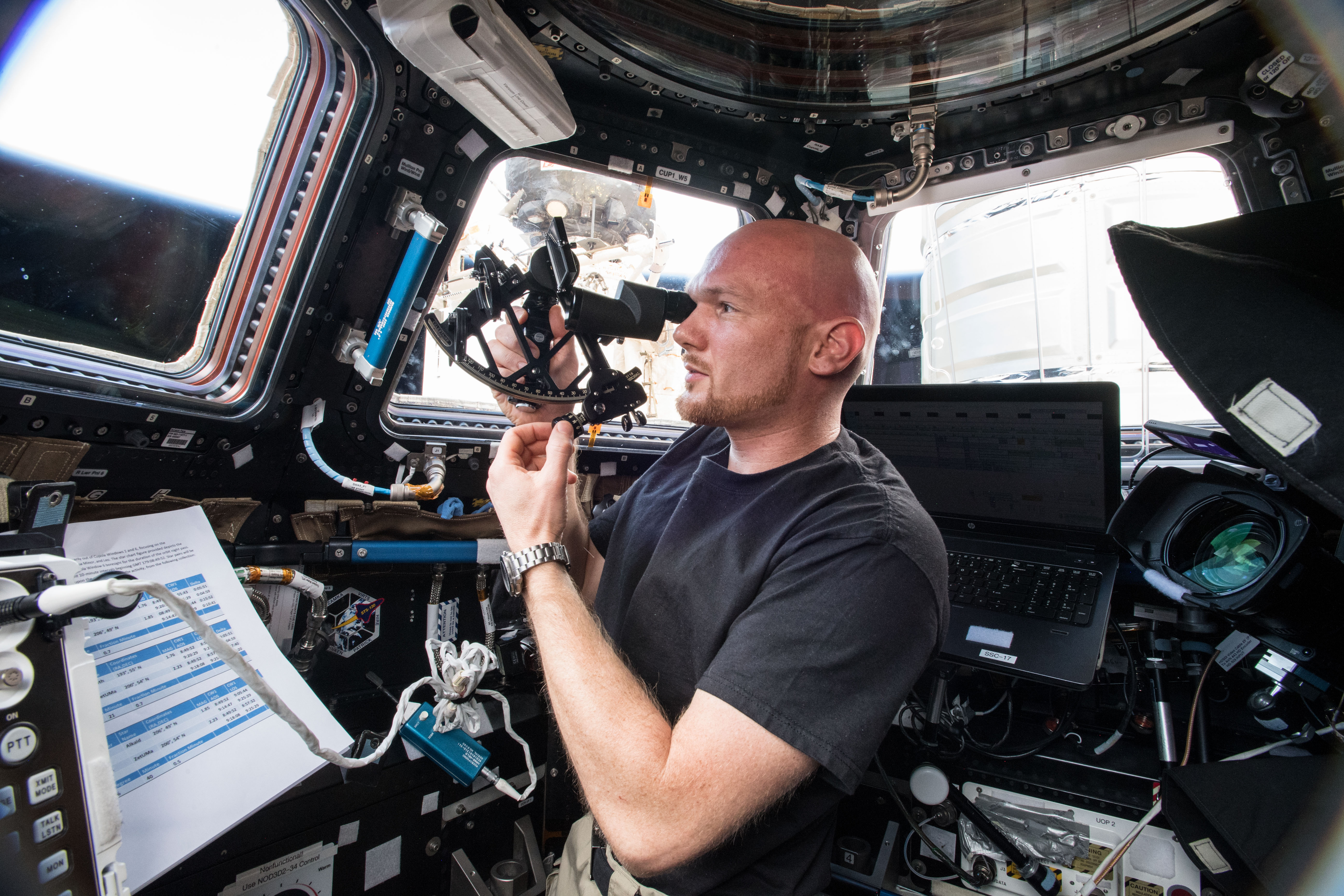 Astronaut Alexander Gerst of ESA (European Space Agency) calibrates and operates the Sextant Navigation device which is testing emergency navigation methods such as stability and star sighting in microgravity for future Orion exploration missions.